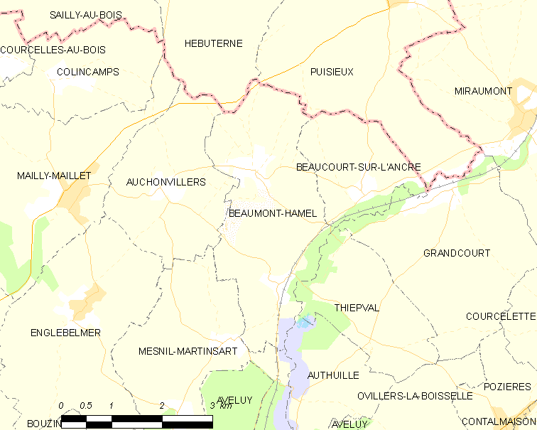 Map of French municipality Beaumont-Hamel